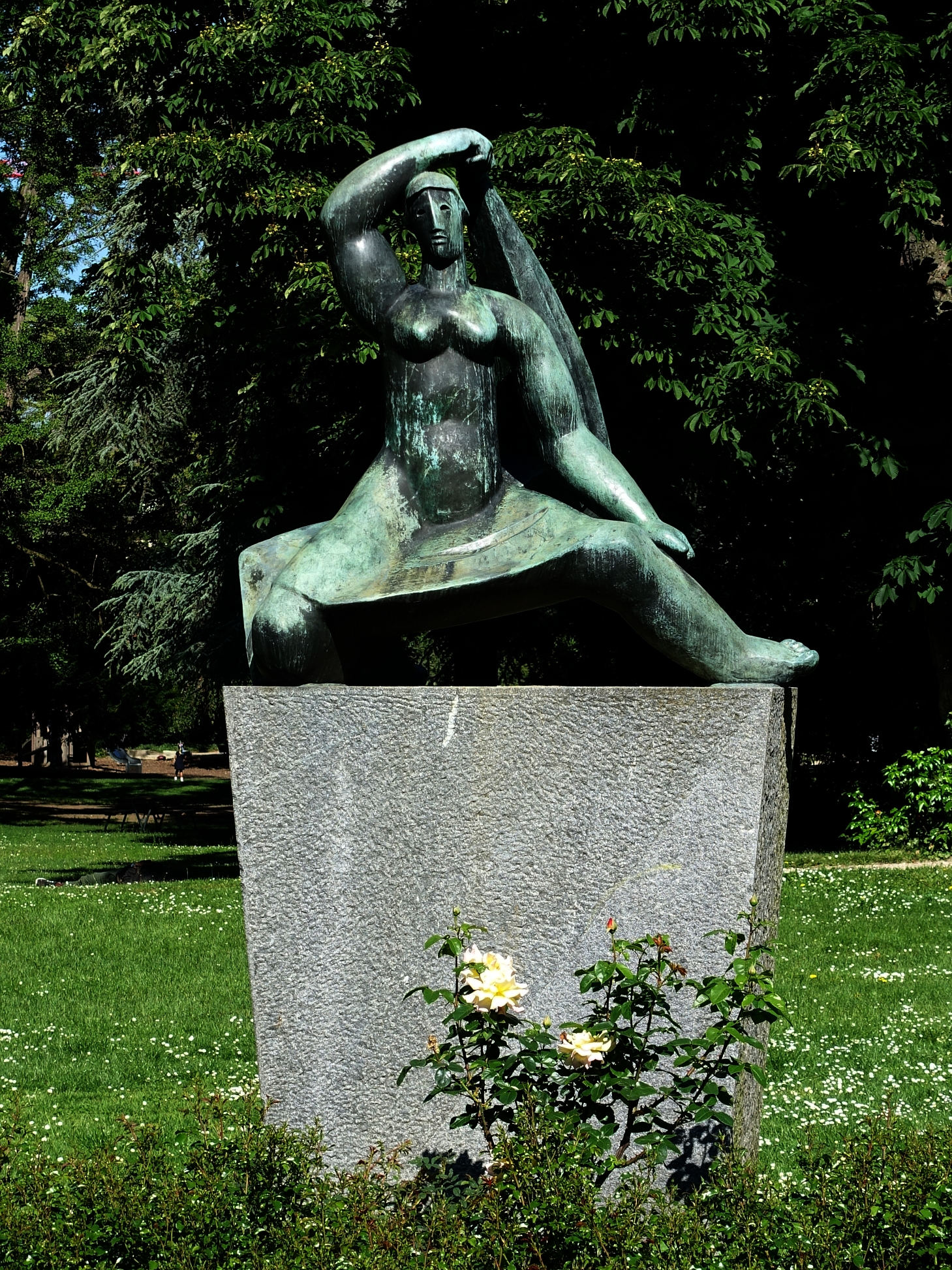 Louis Léon Weber (1891-1972) Bildhauer, Skulptur, L`Aube, 1957-61, ehemals in der Totentanz Anlage, Basel aufgestellt. Nach Protesten wurde die Plastik 1961 in den Rosenfeldpark aufgestellt.